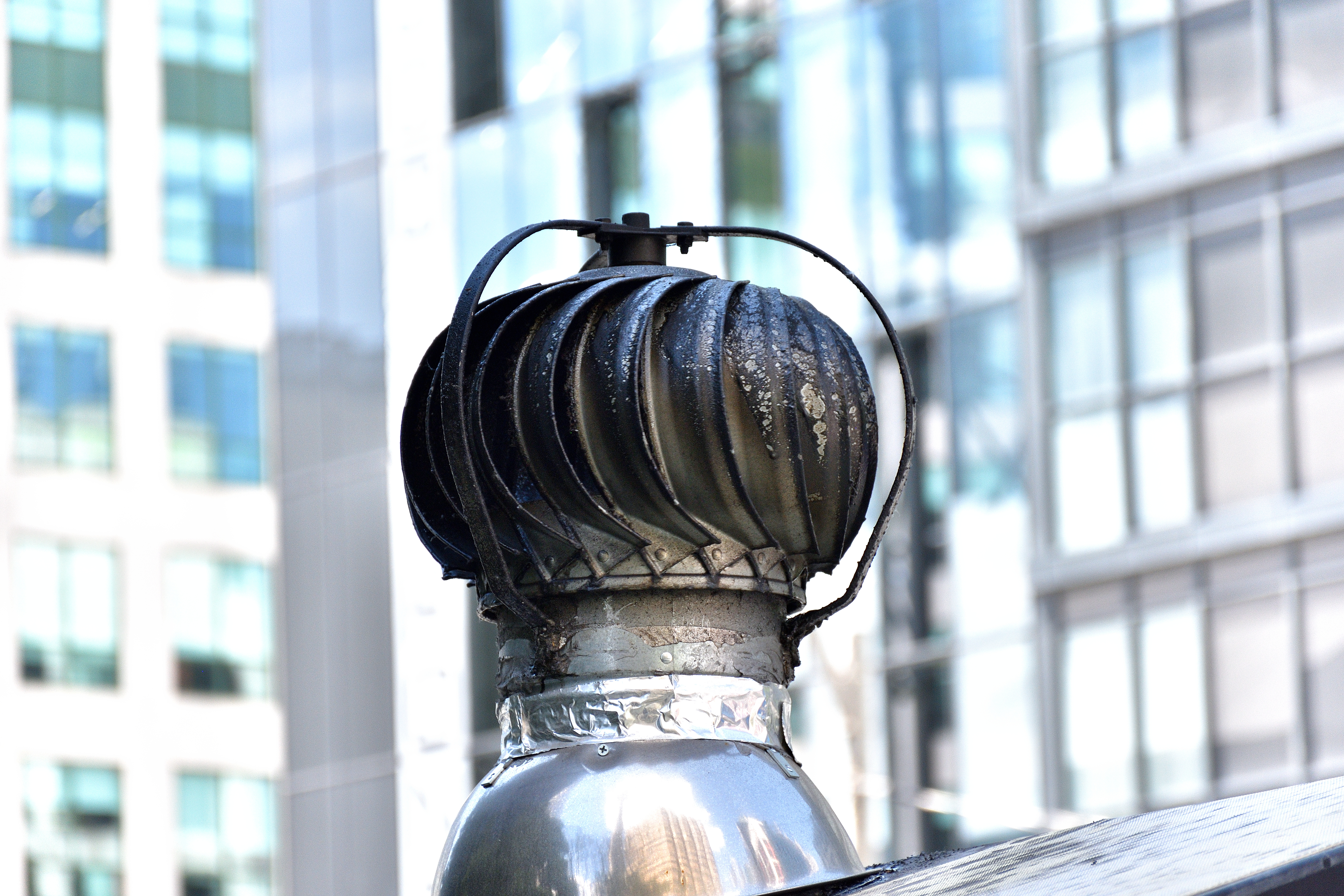 Rotating chimney cowl – Some mechanical ventilators harness the power of wind to rotate, and ventilate a space such as attics.